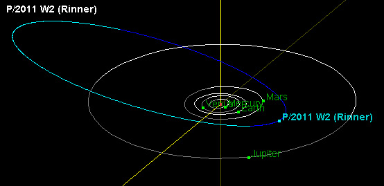 Orbit diagram of the P/2011 W2 (Rinner) comet